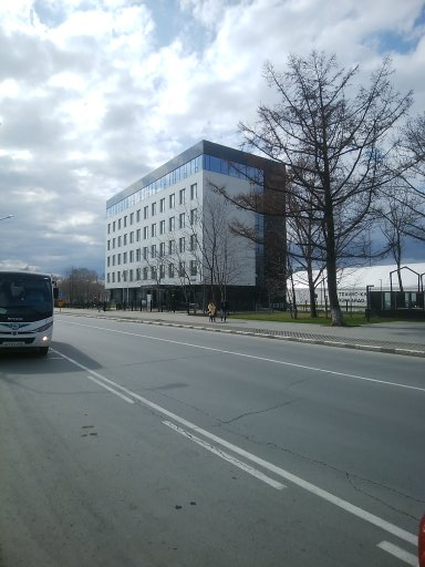 Hokkaido Center Building in Yuzhno-Sakhalinsk, which hosts Consulate-General of Japan